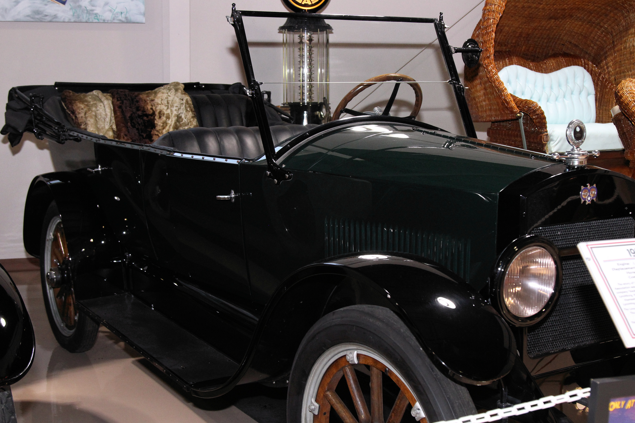 Side view of a Lone Star branded automobile at Dick's Classic Car Garage in San Marcos, Texas, United States